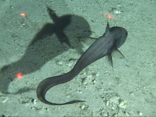 Rare fish in the Bathygadid family. The fisheries biologists on board the KOK are not sure what species it is, but they think it may be in the Gadomus genus. Supposedly, there are only two genus of this family in Hawaii and only one Gadomus species (G. melanopterus) has been seen in Hawai'i. This will be a new record for the HURL group.